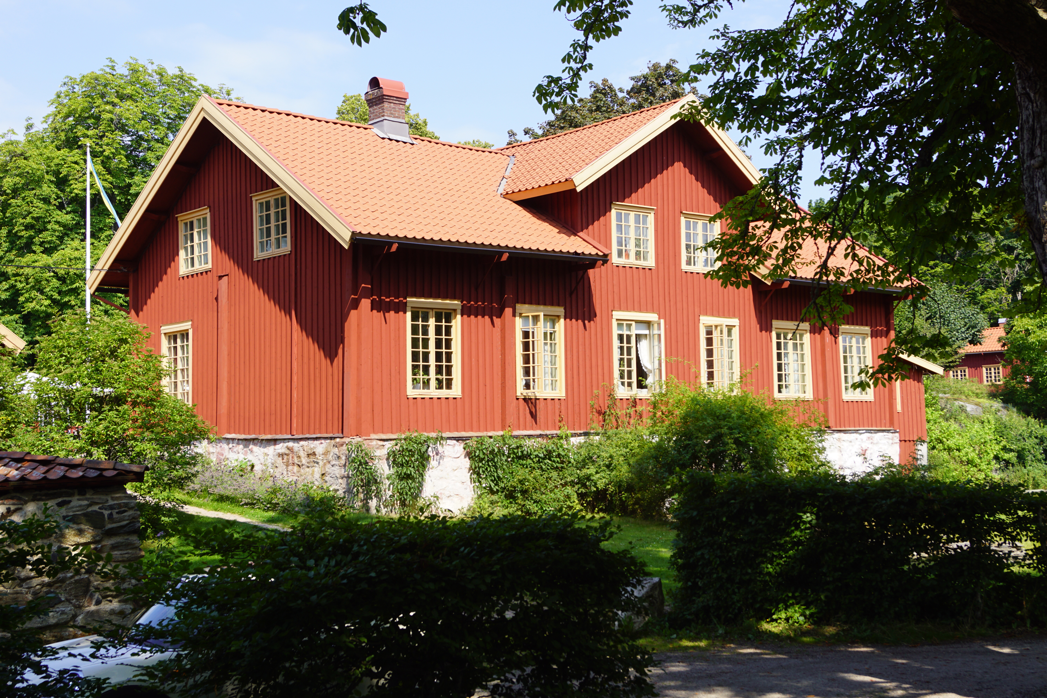 Sundsby seat farm in Valla socken, Tjörn Municipality, Sweden.